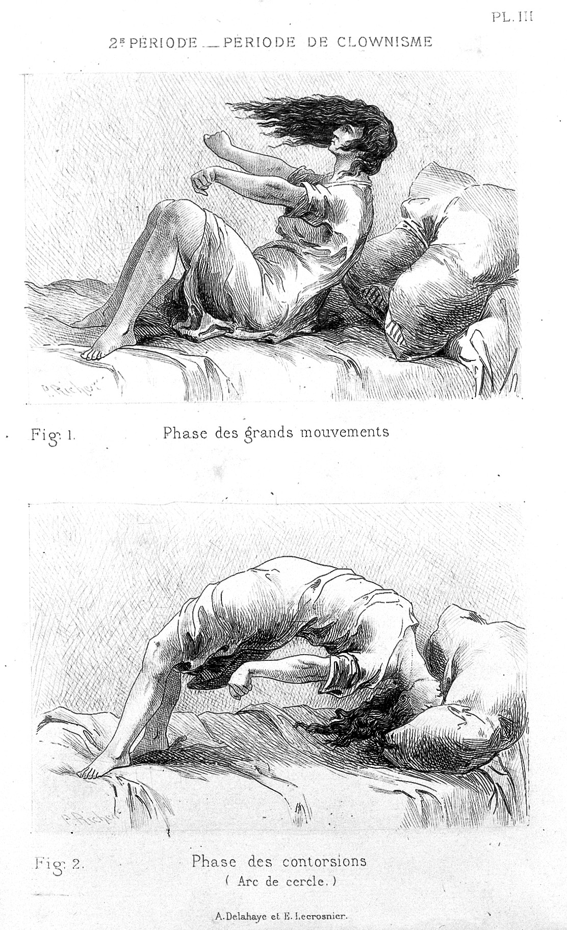 Second period: clownism General Collections Keywords: Hysteria; Jean-Martin Charcot